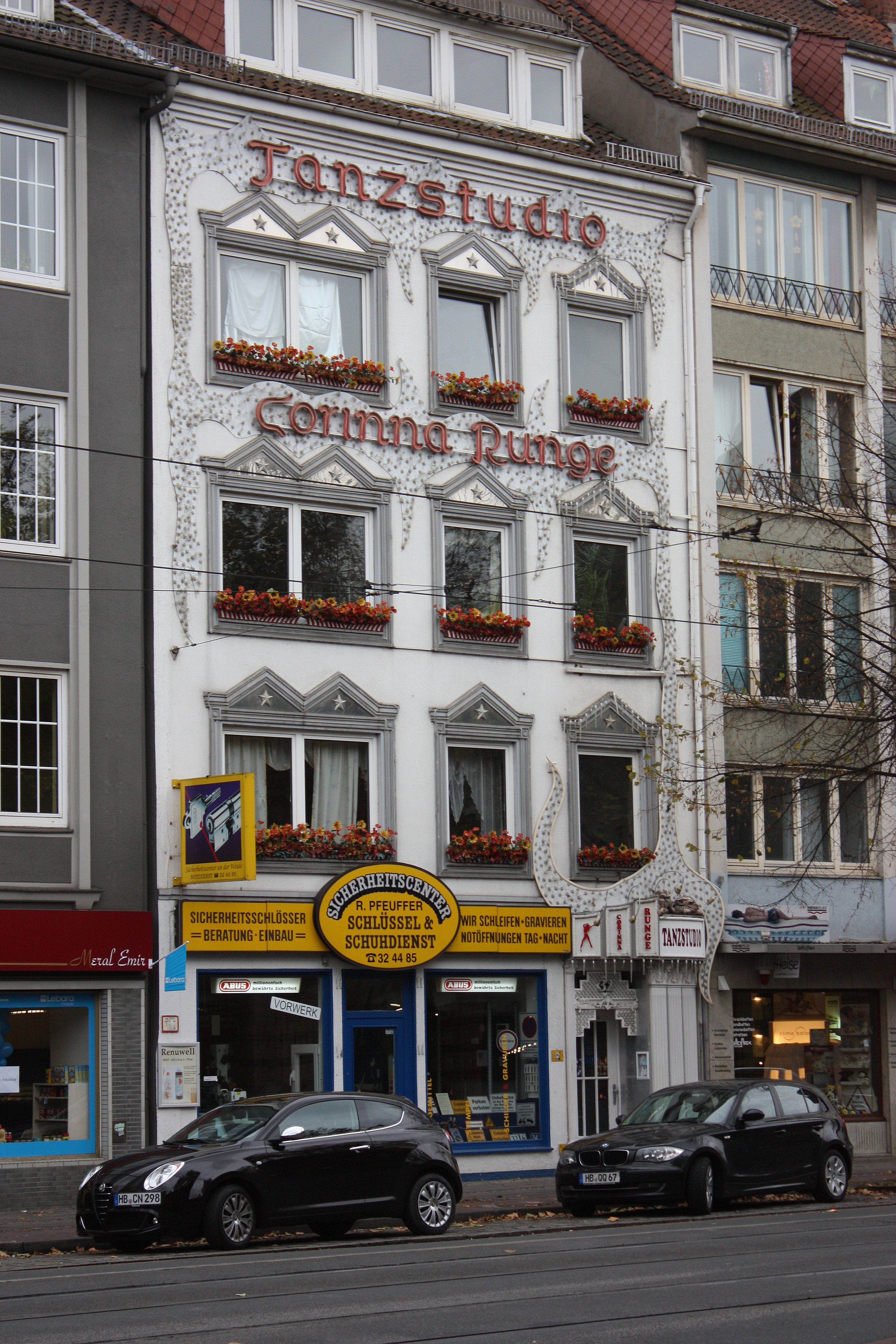 Bremen, dance studio on the street "An der Weide"